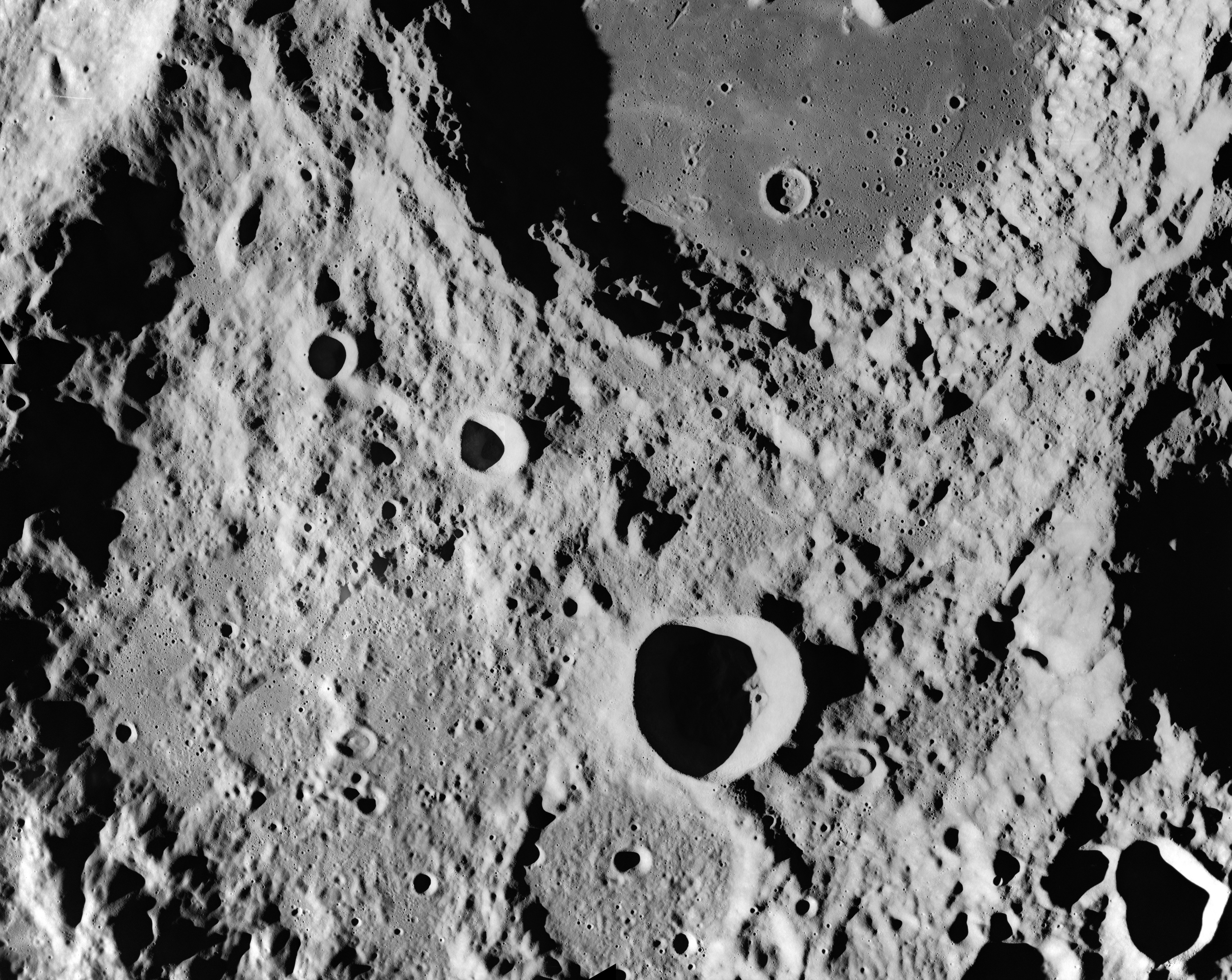 Most of Vertregt, on the far side of the moon. Taken from an altitude of approximately 120 km on Revolution 29 of the Apollo 17 mission. Sun angle is about 9 deg.